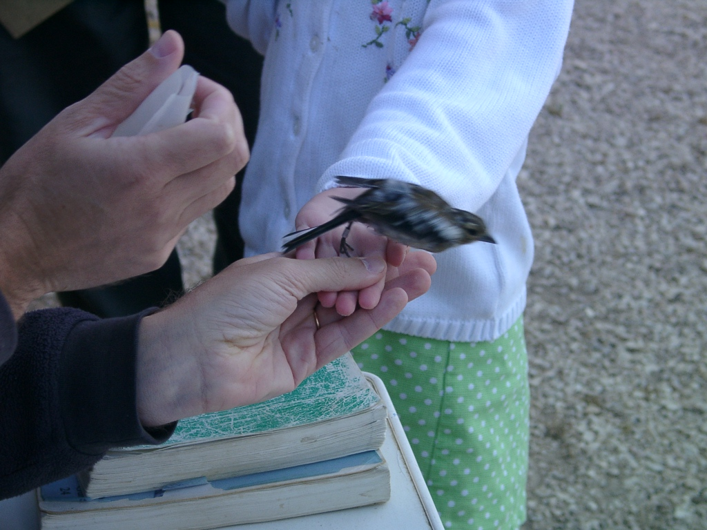 Bird ringing (bird banding) sequence, picture 9: Releasing the bird (Chaffinch, Fringilla coelebs). Cruzinha, Portimão, Portugal.